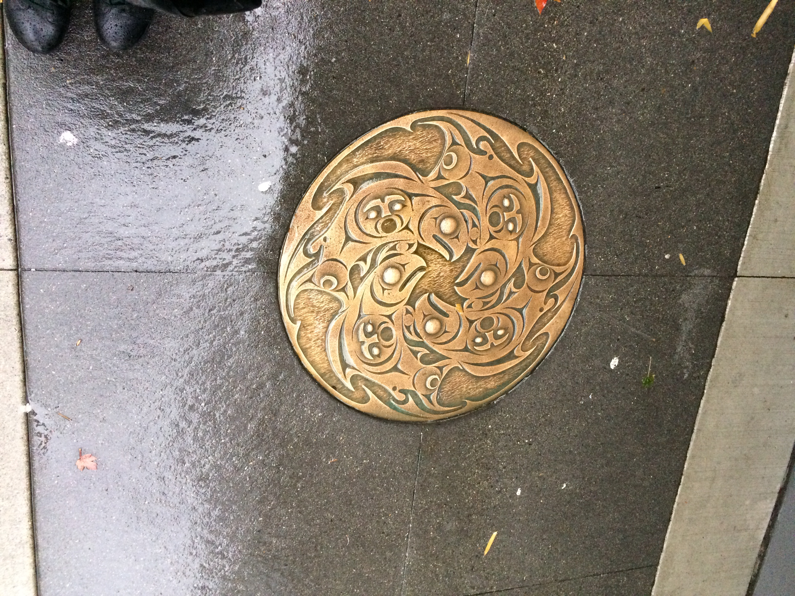 Manhole cover in sidewalk Coal Harbor, Vancouver, BC. Designed by Susan Point